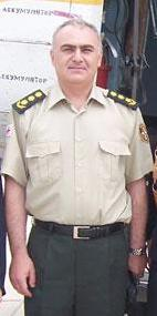 On the way to Poti: (From left to right) Pol/Econ Intern Stephanie Gilbert, Lt. Gen. Badri Bitsadze, Deputy Minister of Internal Affairs, Chairman of the Department for State Borders, Pol/Econ Intern Anya Yakhedts, PD Intern Olga Elena Bashbush, and U.S. Ambassador to Georgia Richard Miles, stand in front of a helicopter at an airbase outside of Tbilisi.